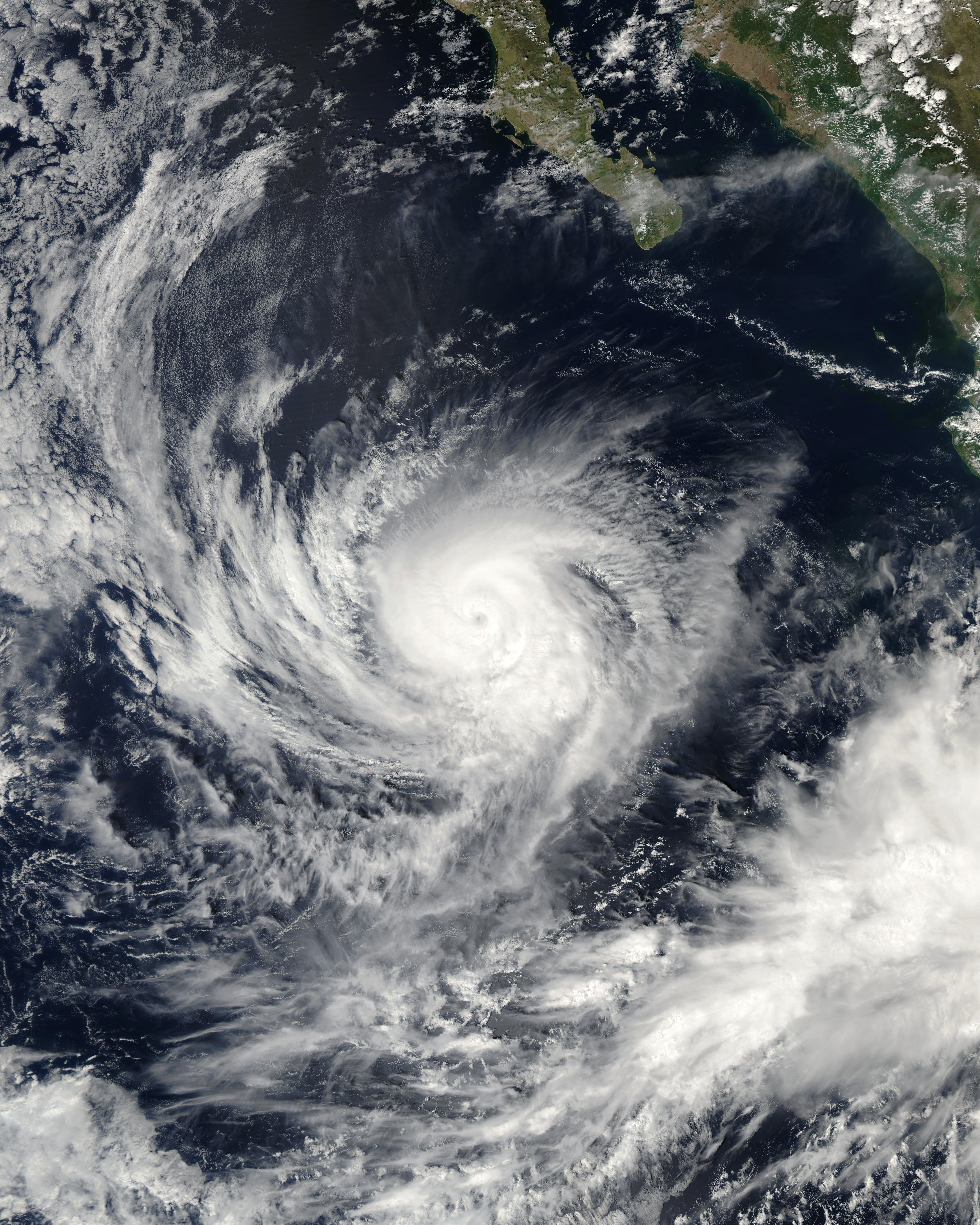 Hurricane Nora on October 4, 2003